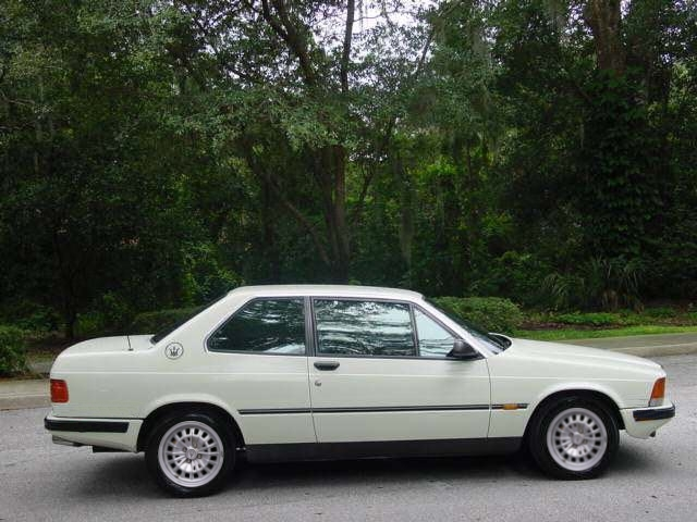 Maserati 228i